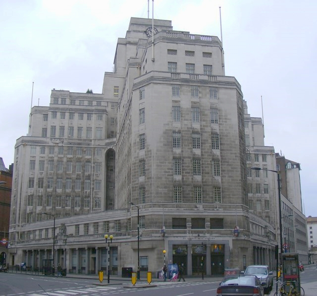 55 Broadway, designed by Charles Holden, built 1927–29. This is the headquarters of London Underground above St. James's Park Underground station.